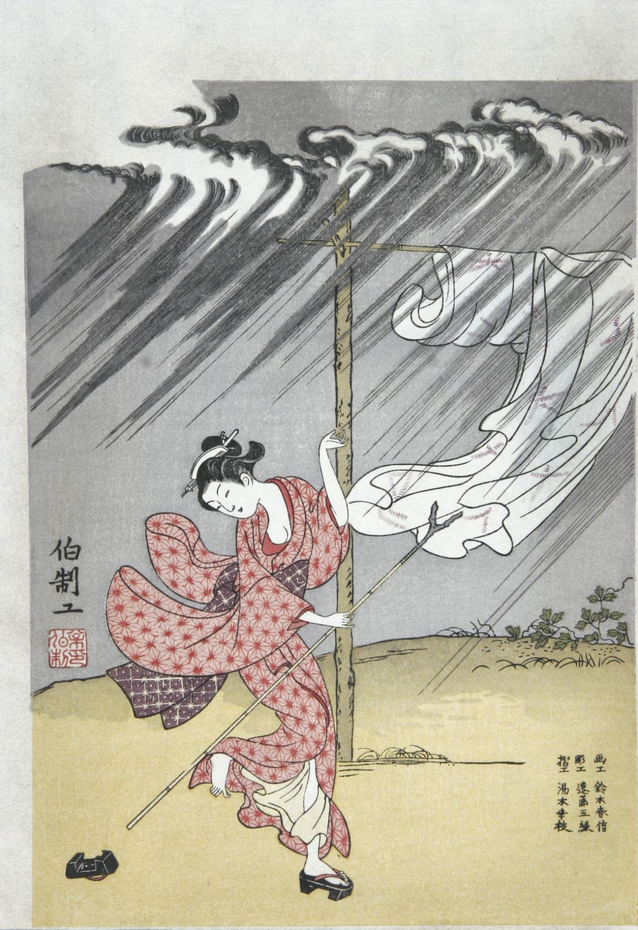 Suzuki Harunobu (1724-1770), Young woman bathing in the Summer rain (1765). Collection of Japanese prints of Centre Céramique, Maastricht, the Netherlands.